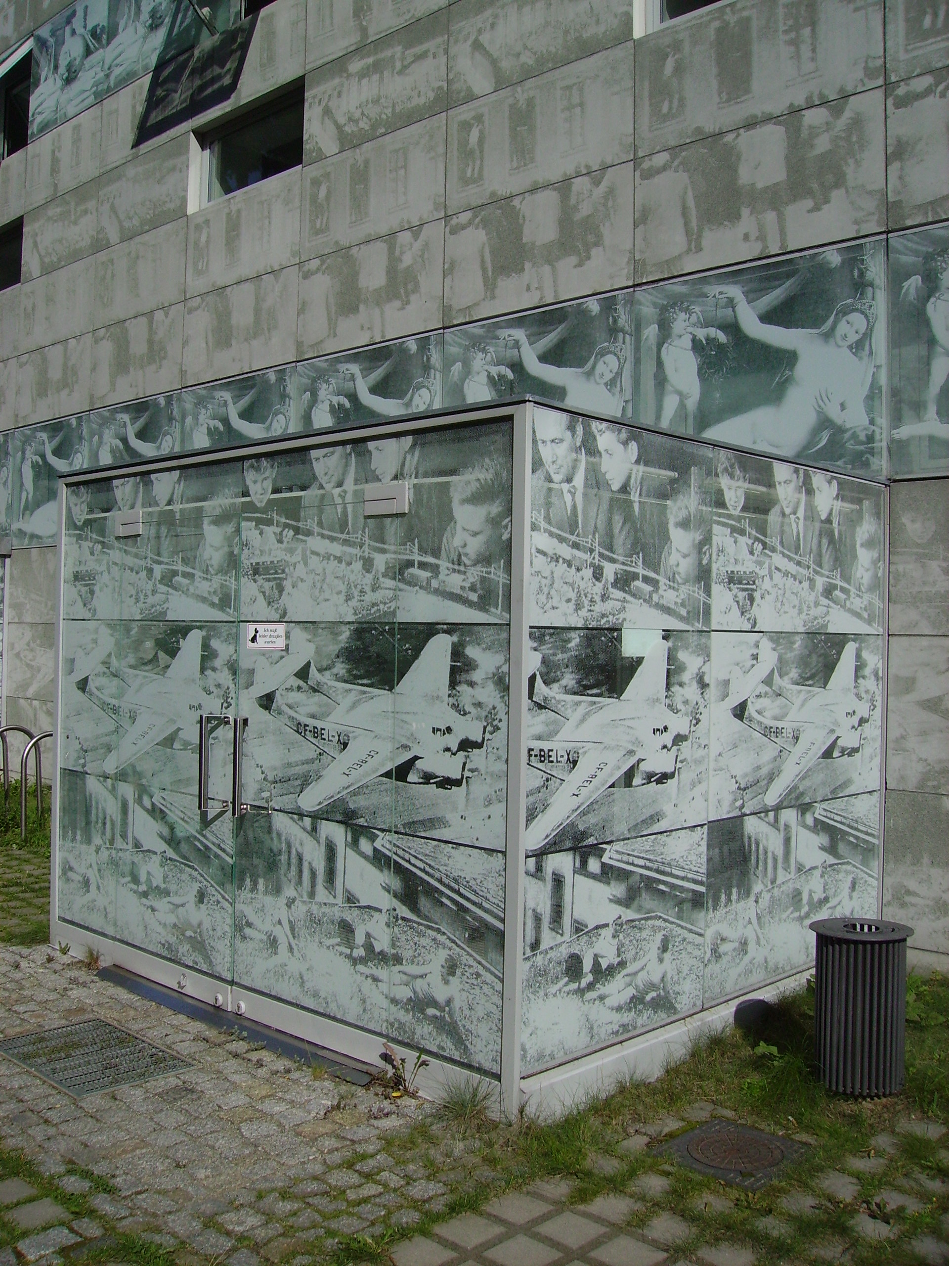 Library of University of Applied Sciences in Eberswalde in Brandenburg (Germany)